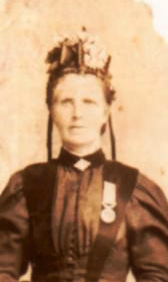 Jane Whyte, rescuer in 1884